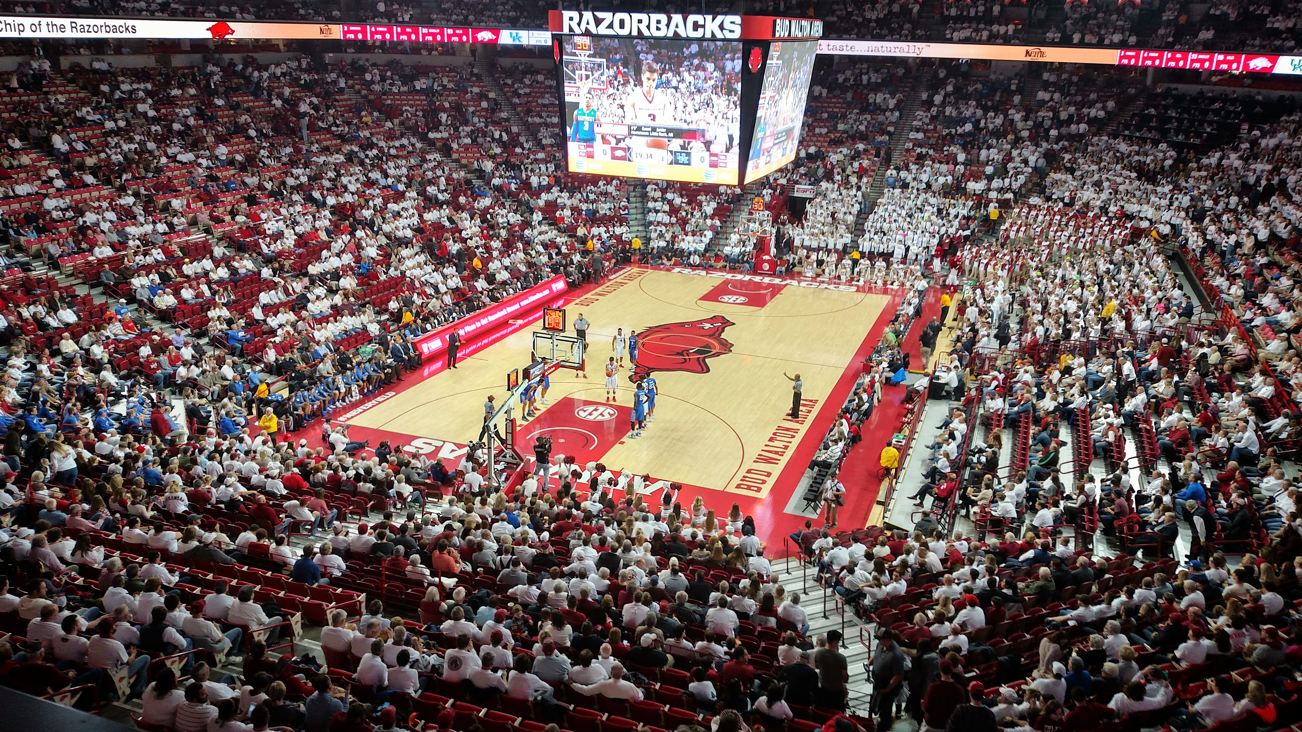 Dusty Hannahs takes a free throw for Arkansas against Kentucky in men's college basketball